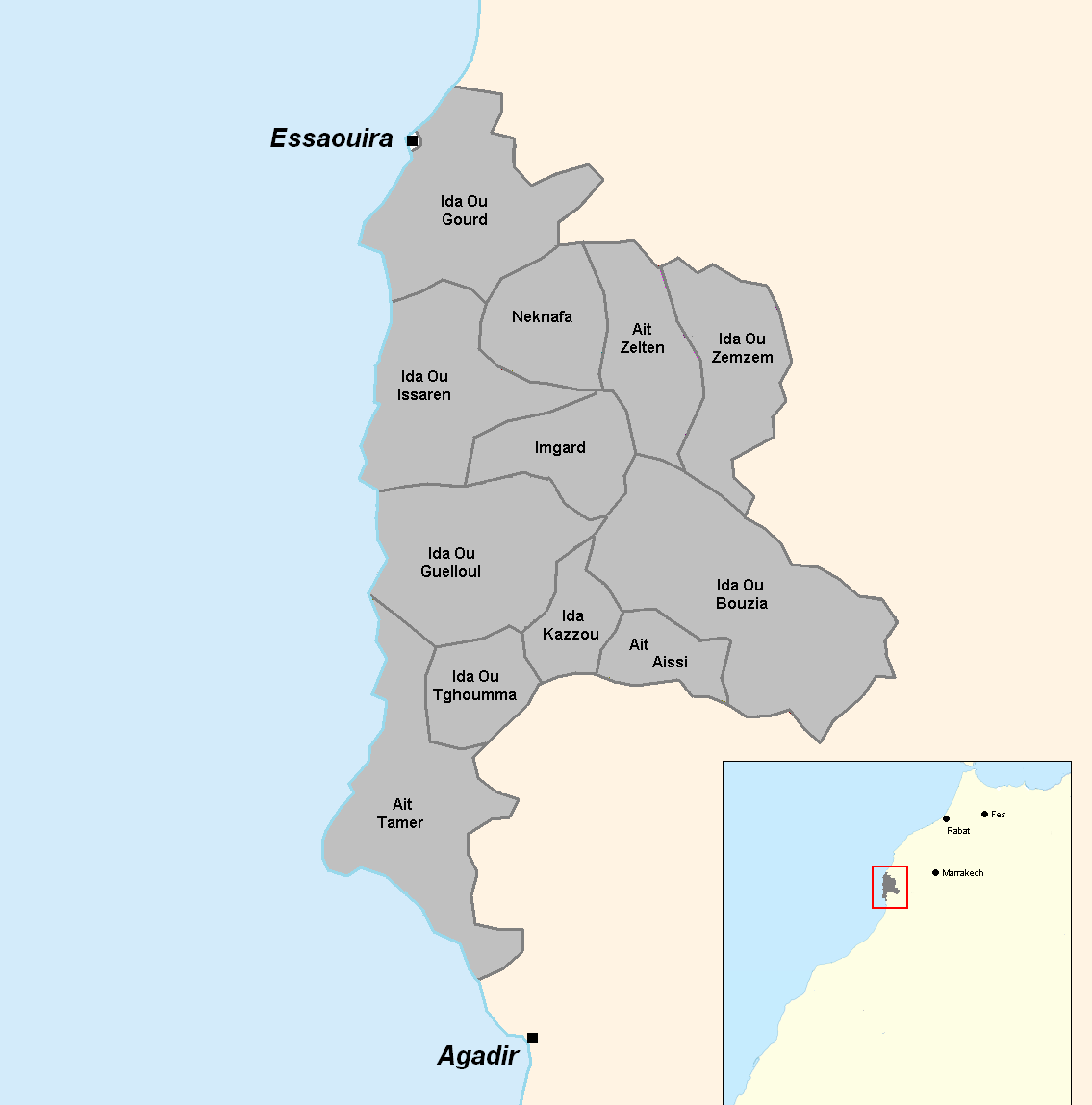 Map representing the territory of Hahha tribe and different Hahha clans, Morocco